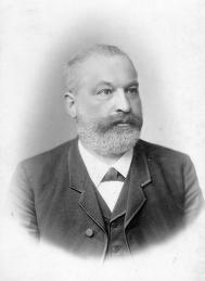 Picture of German chemist Clemens Winkler (who died in 1904)